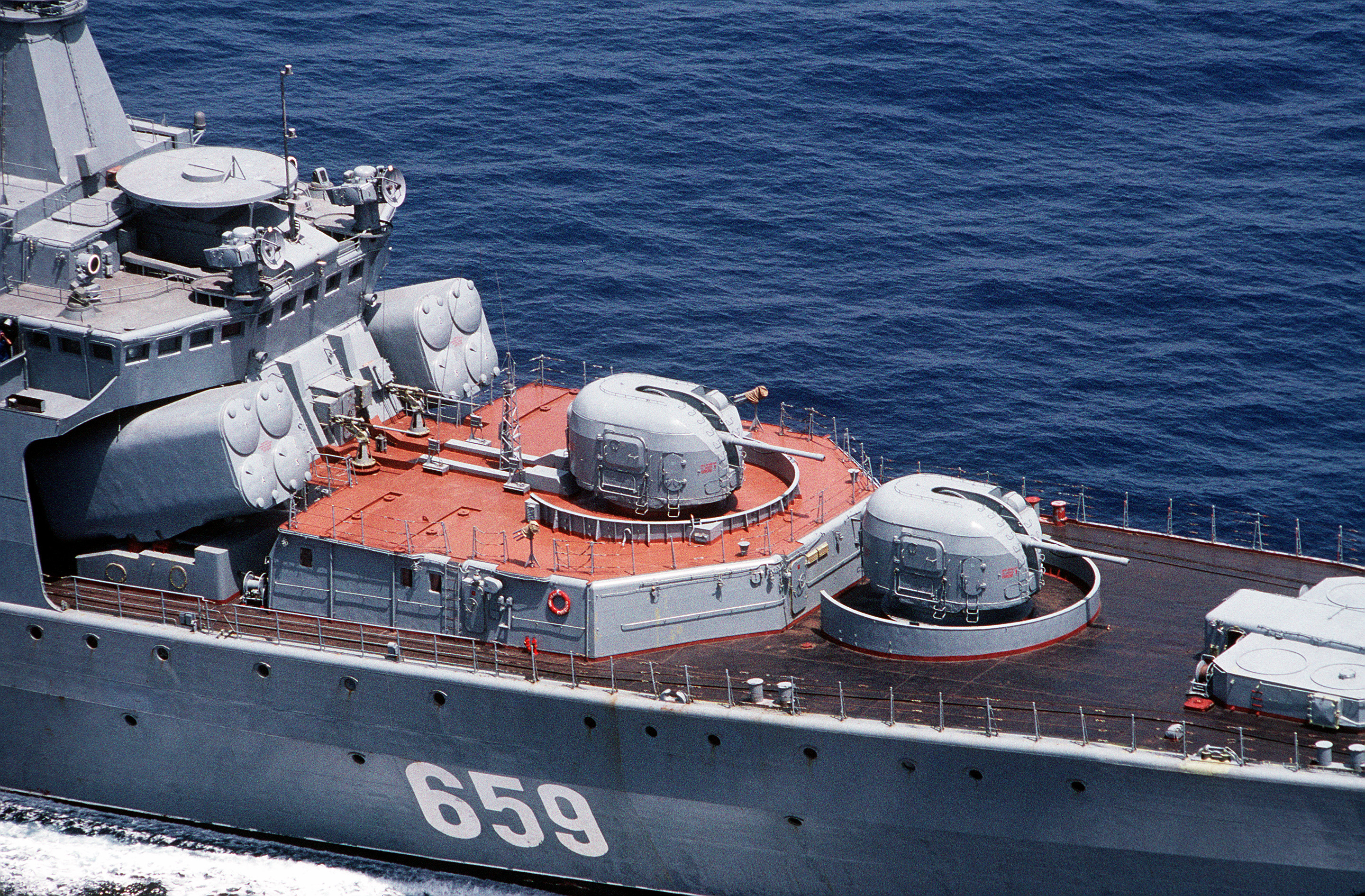 A view of SS-N 14 missile launchers and 100mm dual purpose guns aboard the Soviet Udaloy class guided missile destroyer Vitse-Admiral Kulakov (DDG-659).